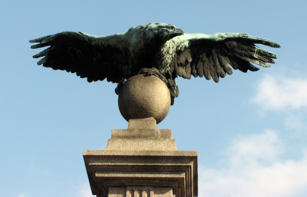 One of the bronze eagles from the Eagles Bridge, Sofia, Bulgaria